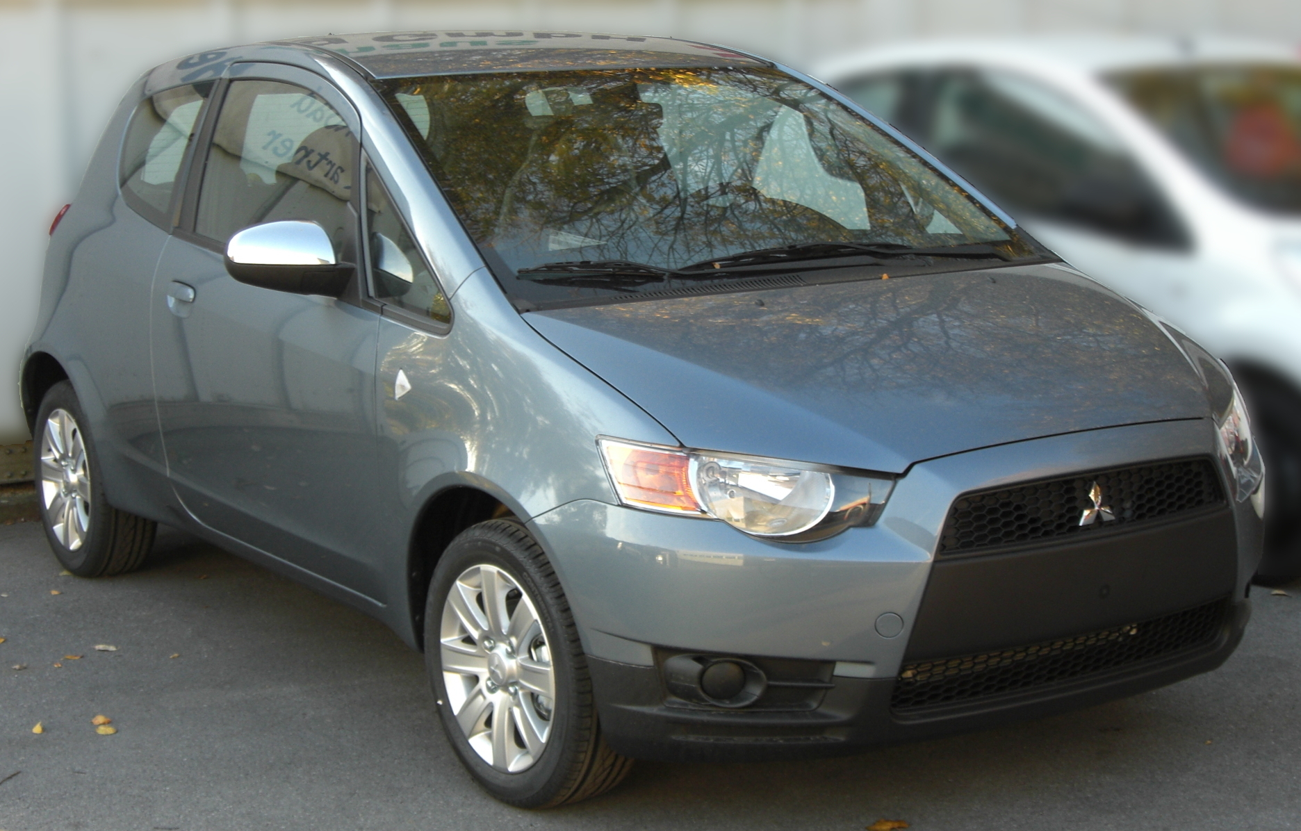 Description: Mitsubishi Colt VI CZ3 Modellpflege Source: Matthias Other Version(s)